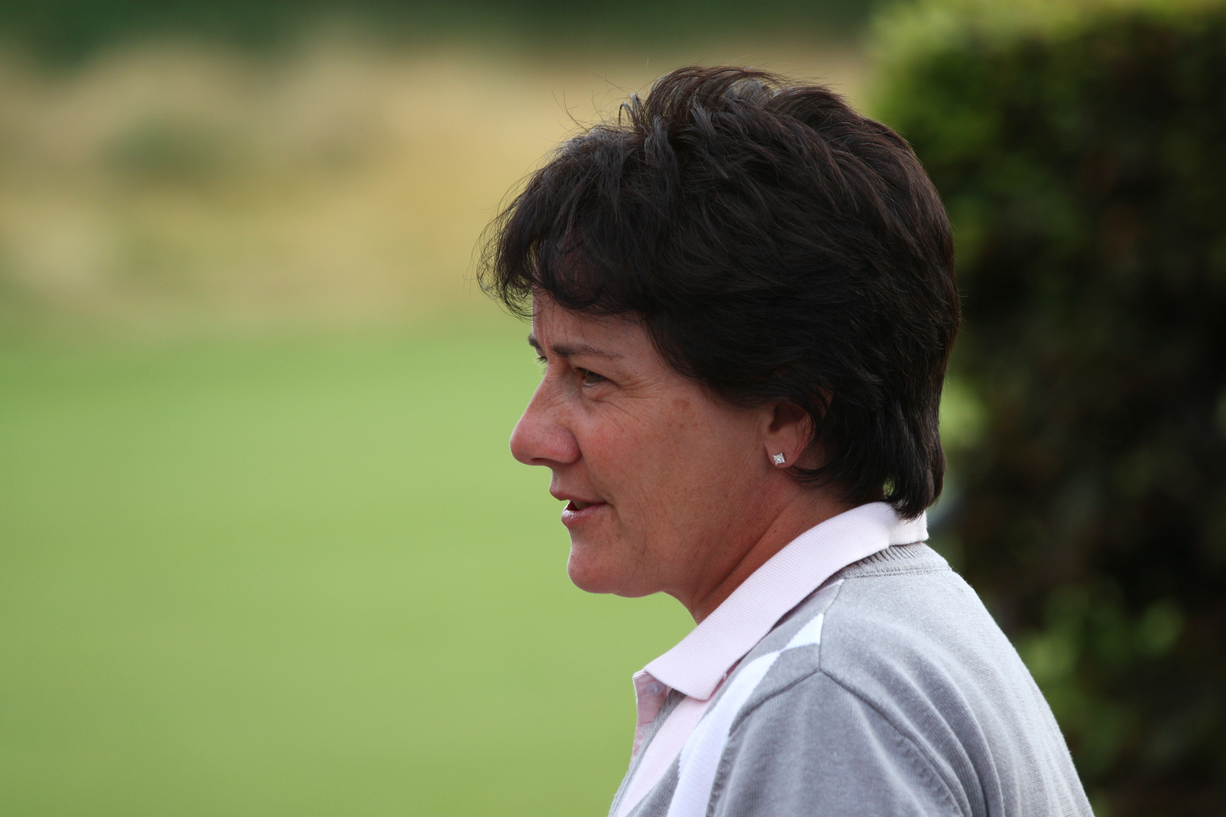 LYTHAM ST ANNES, UNITED KINGDOM - AUGUST 02: Alison Nicholas, captain of the Solheim Cup European Team, before announcement of the Solheim Cup teams after 2009 Ricoh Women's British Open held at Royal Lytham & St Annes on August 2, 2009 in Lytham St Annes, England. (Photo by Wojciech Migda)